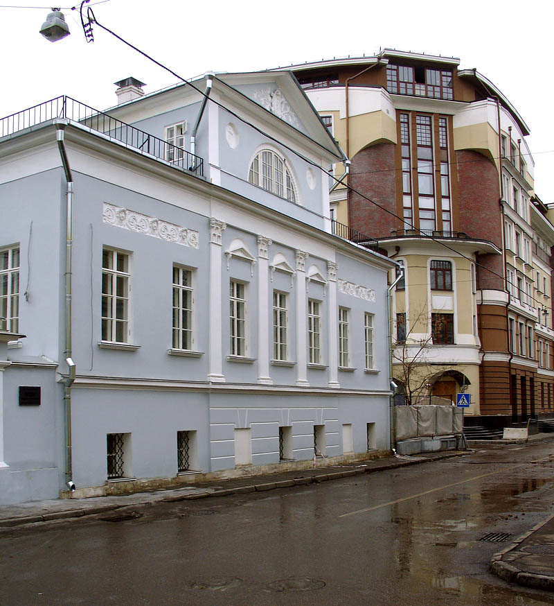 14, First Kadashevsky Lane